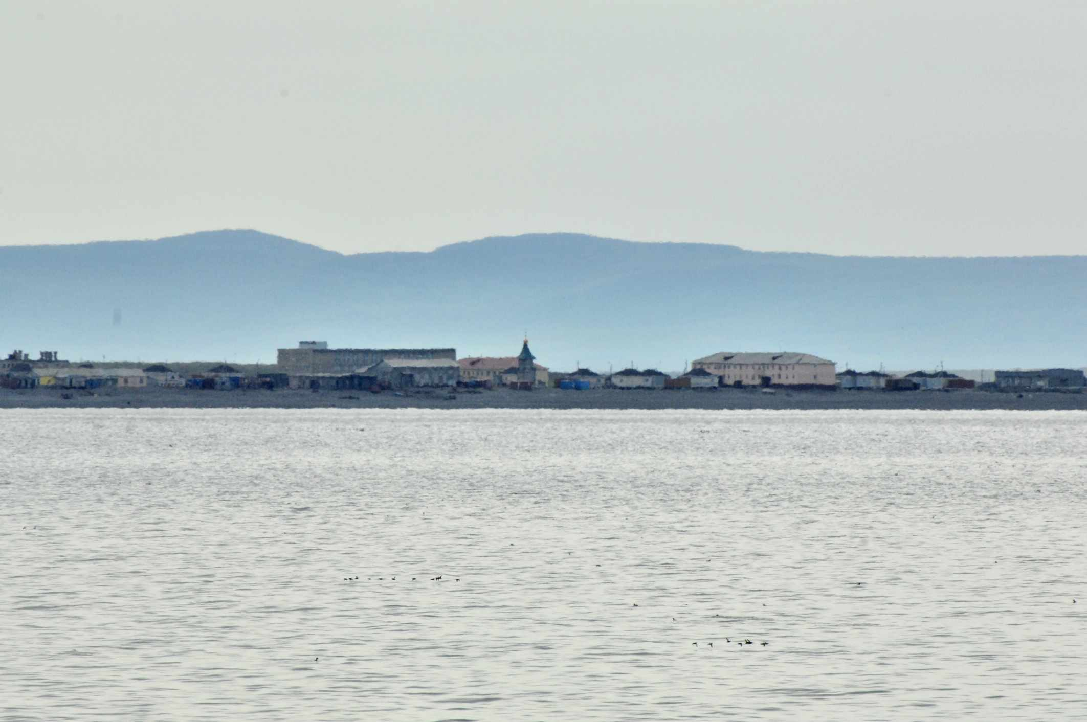 Uelen Village (Chukchi Sea, Russia; 66°9‘37‘‘N, 169°48‘55‘‘W)